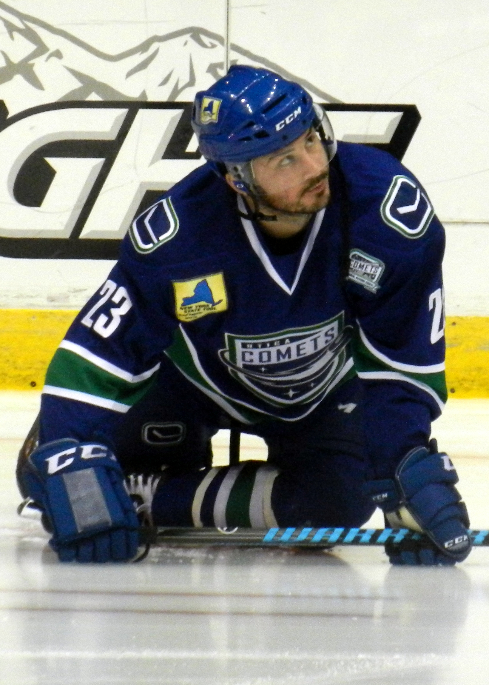 Pascal Pelletier stretchering during pre-game warm-ups before a Utica Comets game during the 2013-14 AHL season